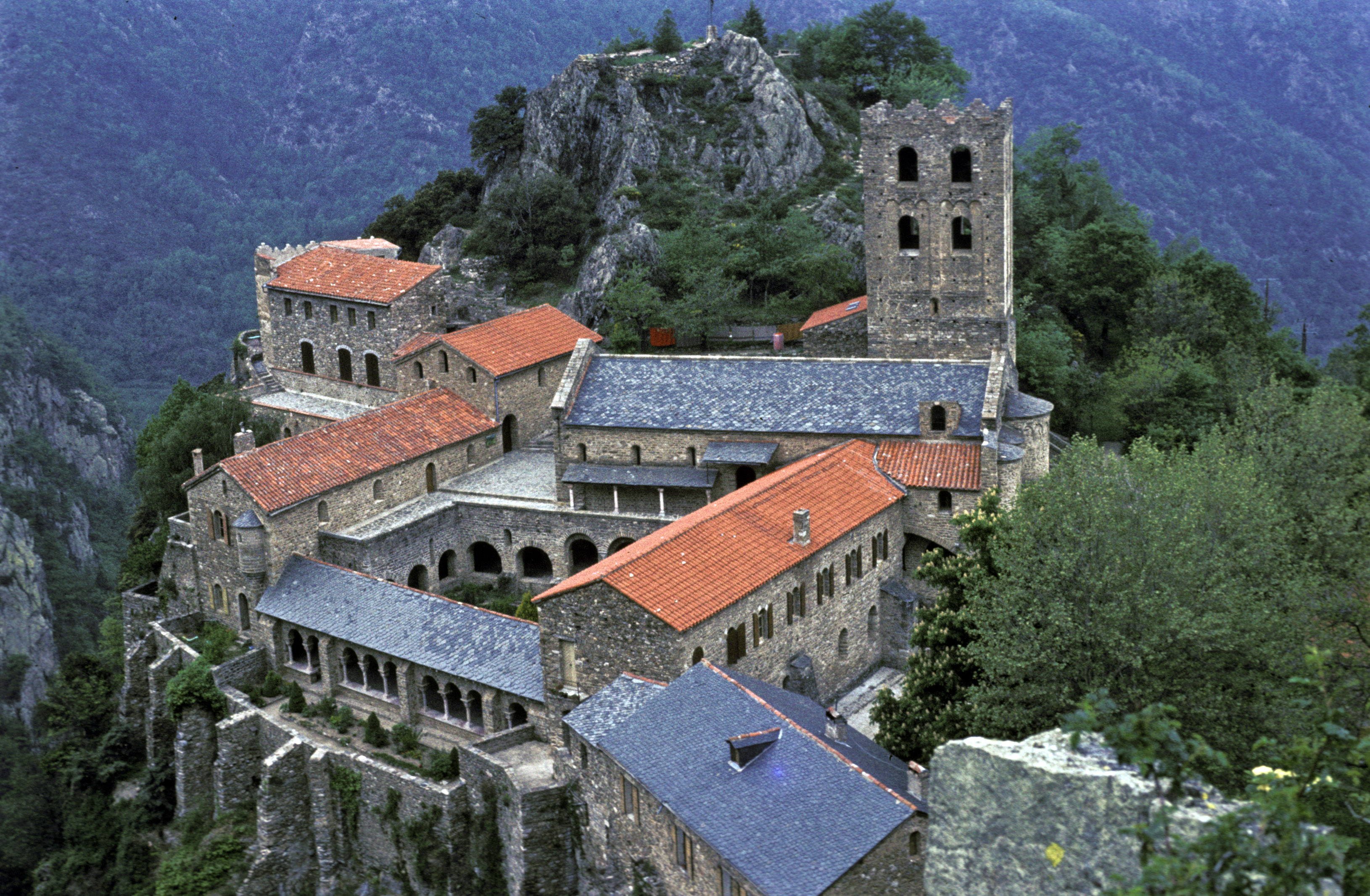 Abbaye Saint-Martin du Canigou in the French department of Pyrénées-Orientales